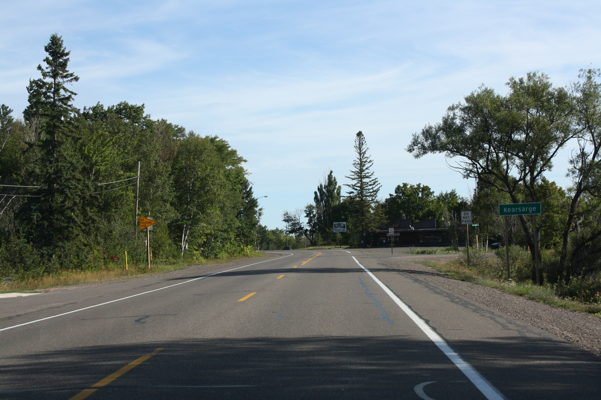 Looking at the sign for Kearsarge, Michigan on U.S. Route 41.